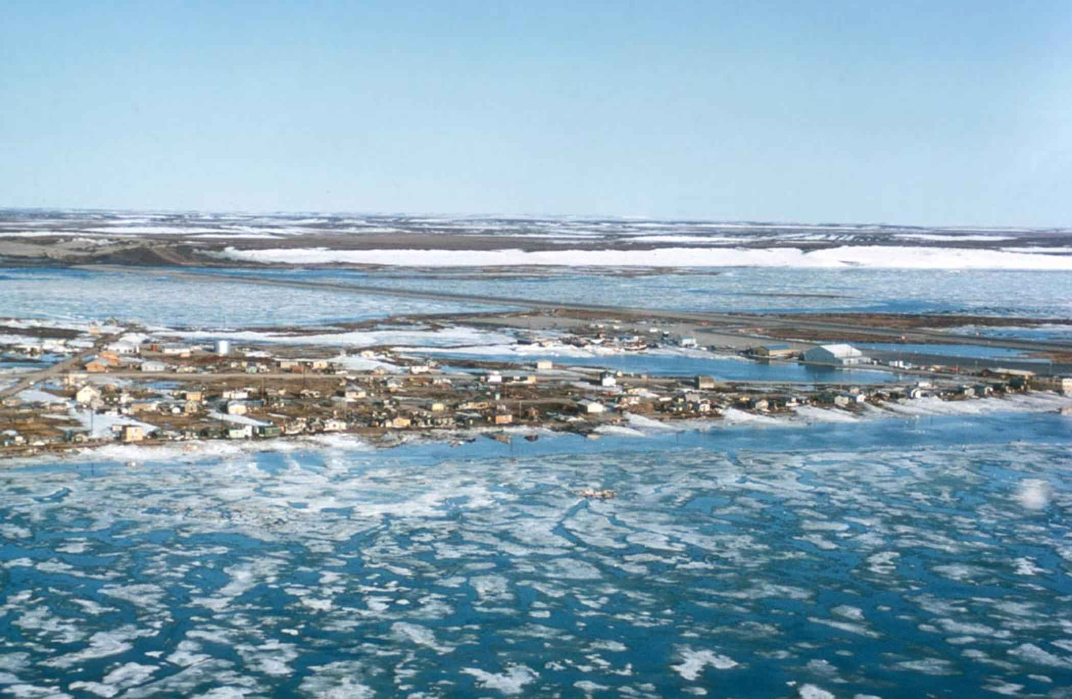 City of Kotzebue, Alaska from the air, showing broken sea ice